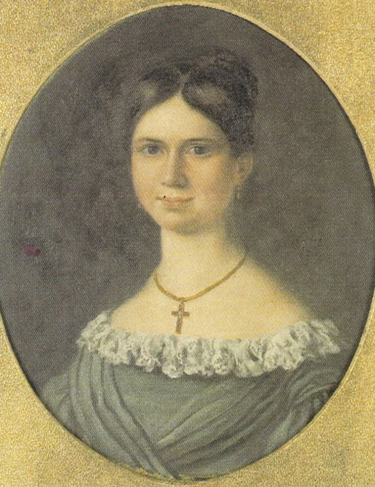 Ida Kierulf (1817-1840), love and muse of norwegian writer Johan Sebastian Welhaven. Unknown artist